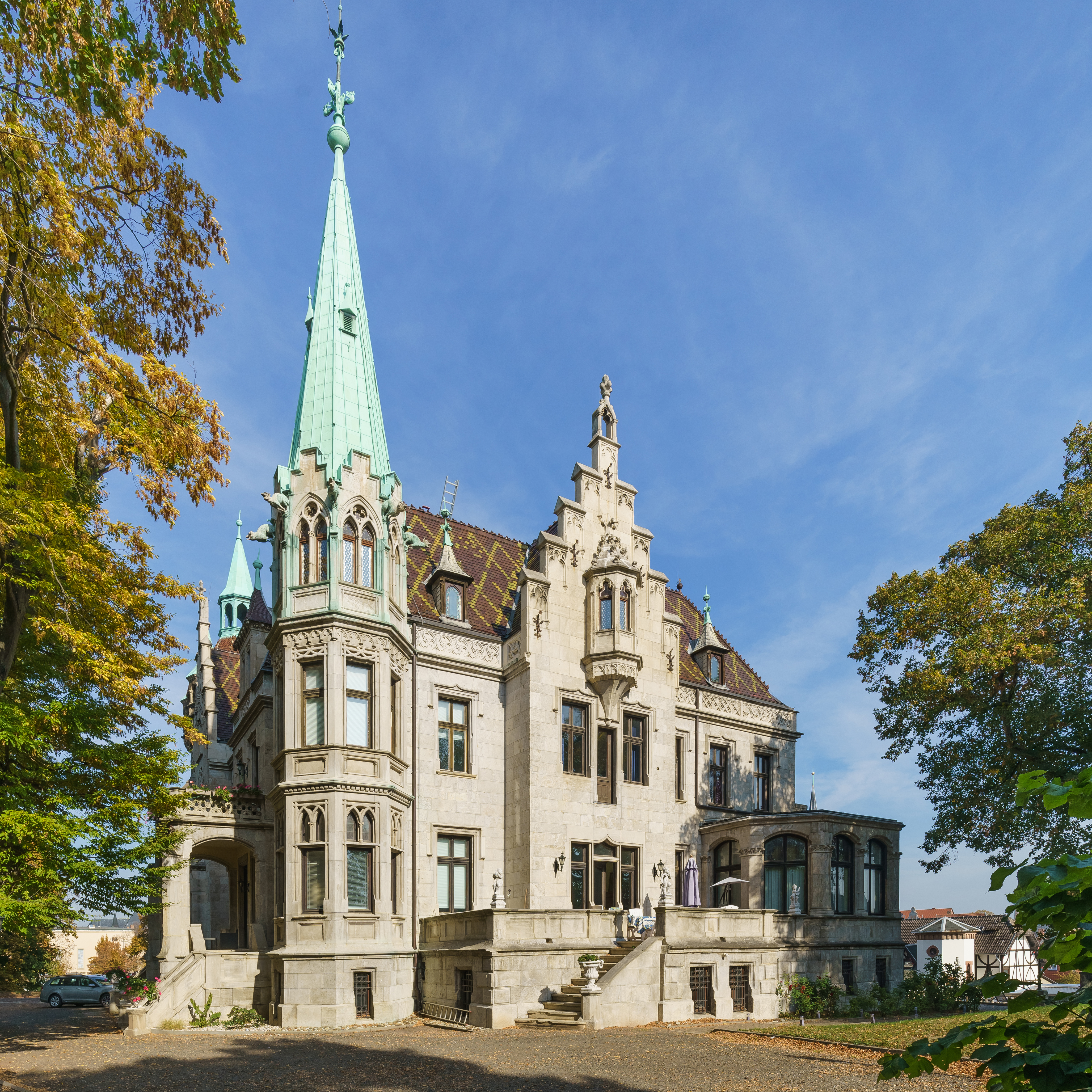 Neo-Gothic villa in Quedlinburg, Germany